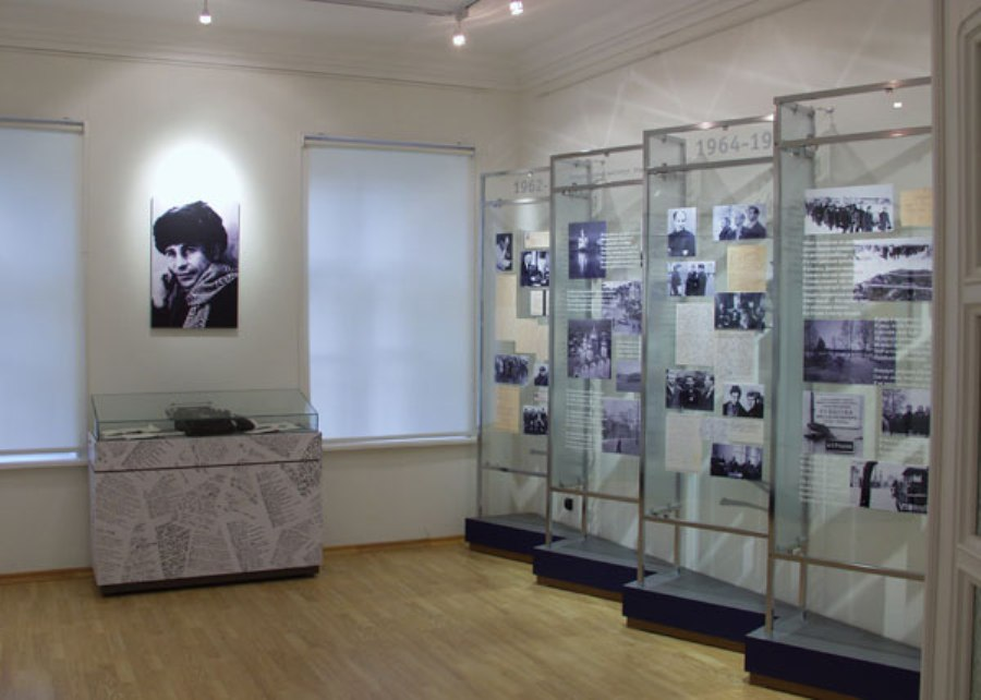 Museum "Literature. Art. XXth century" (Vologda): N. Rubtsov's corner